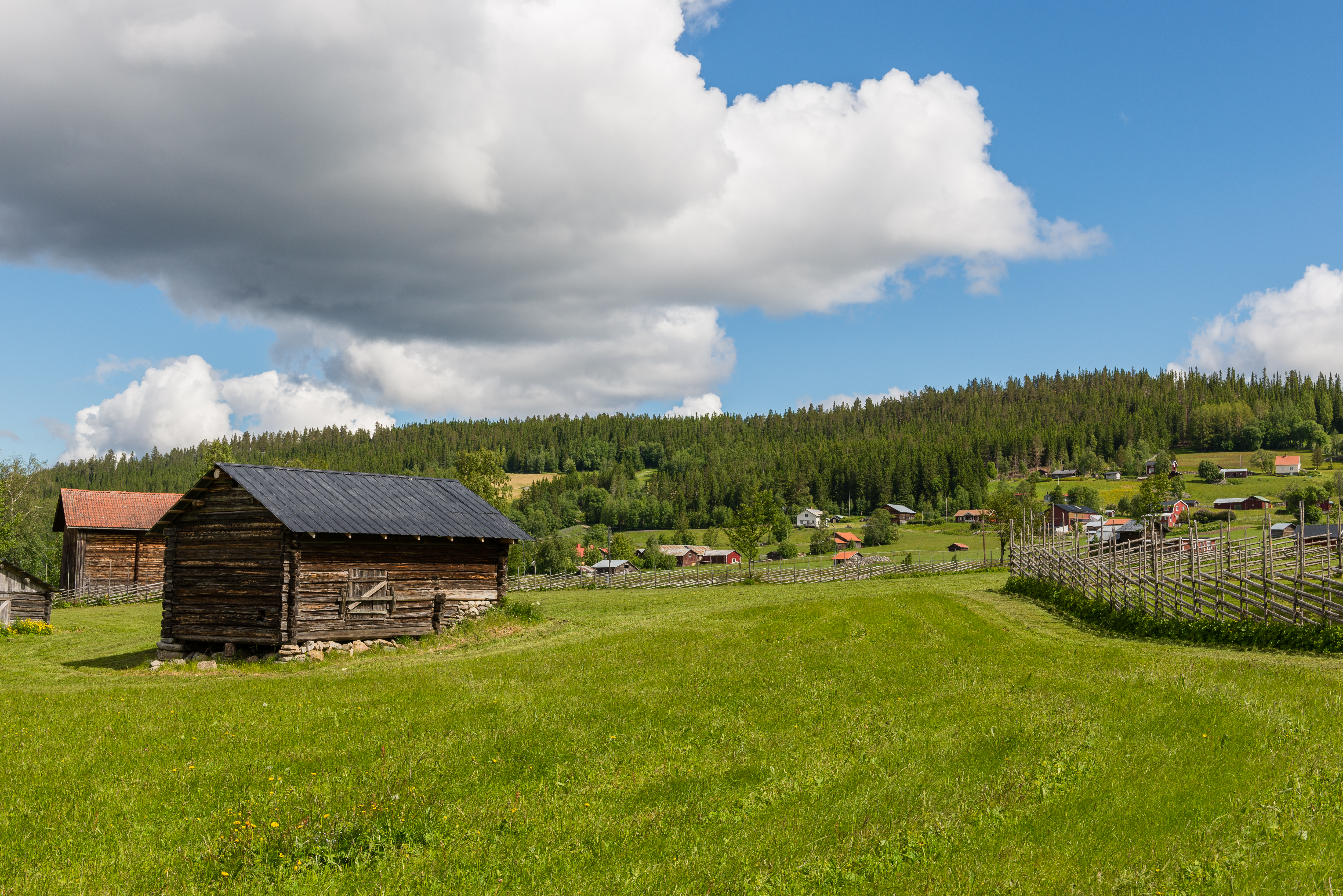 Klövsjö, a villages in Berg municipality, Härjedalen, Sweden.